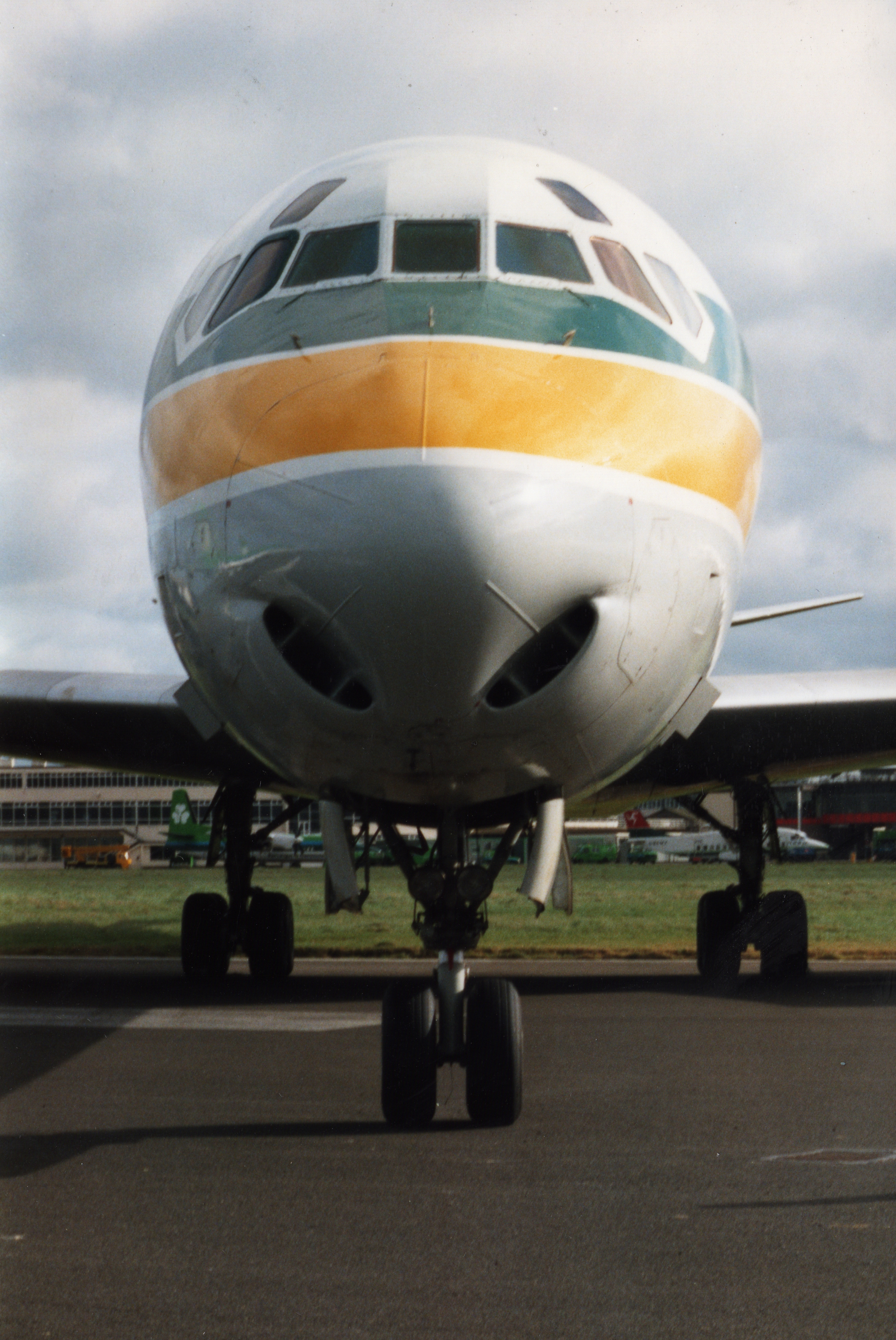 Aer Turas (EI-CGO) Douglas DC-8-63F aircraft, Dublin Airport, Dublin, Republic of Ireland, February 1993